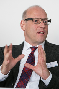 Professor Oliver Bendel at a press conference in Berlin, Germany. Photo by Matti Hillig